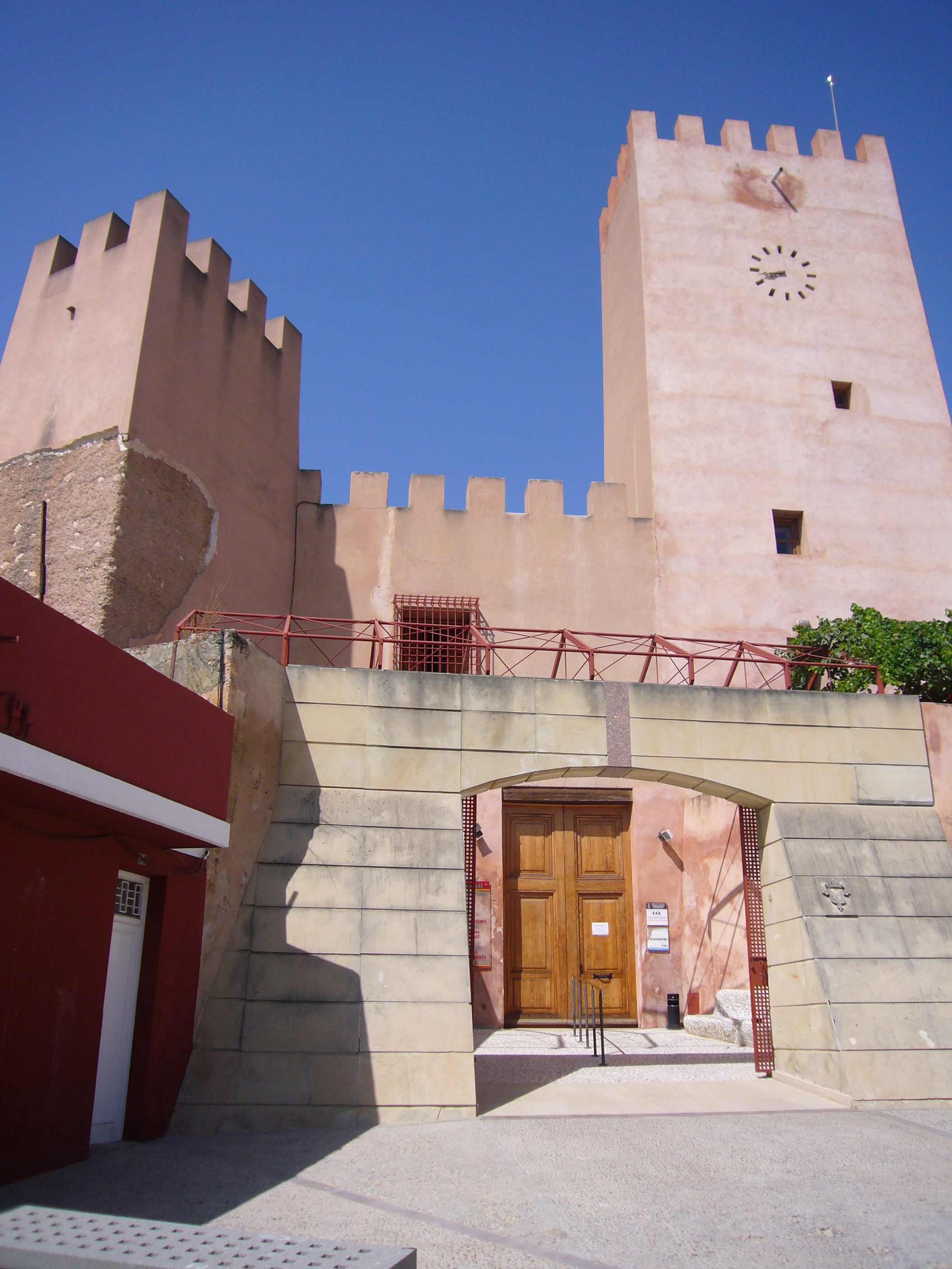 Main wall Bétera Castle in 2008. Bétera (Valencia province).